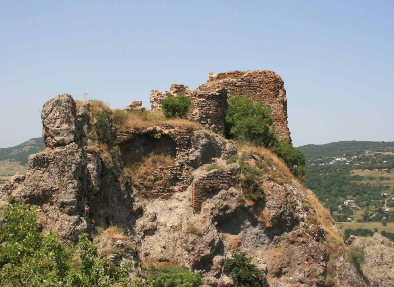 Kojori fortress, Georgia